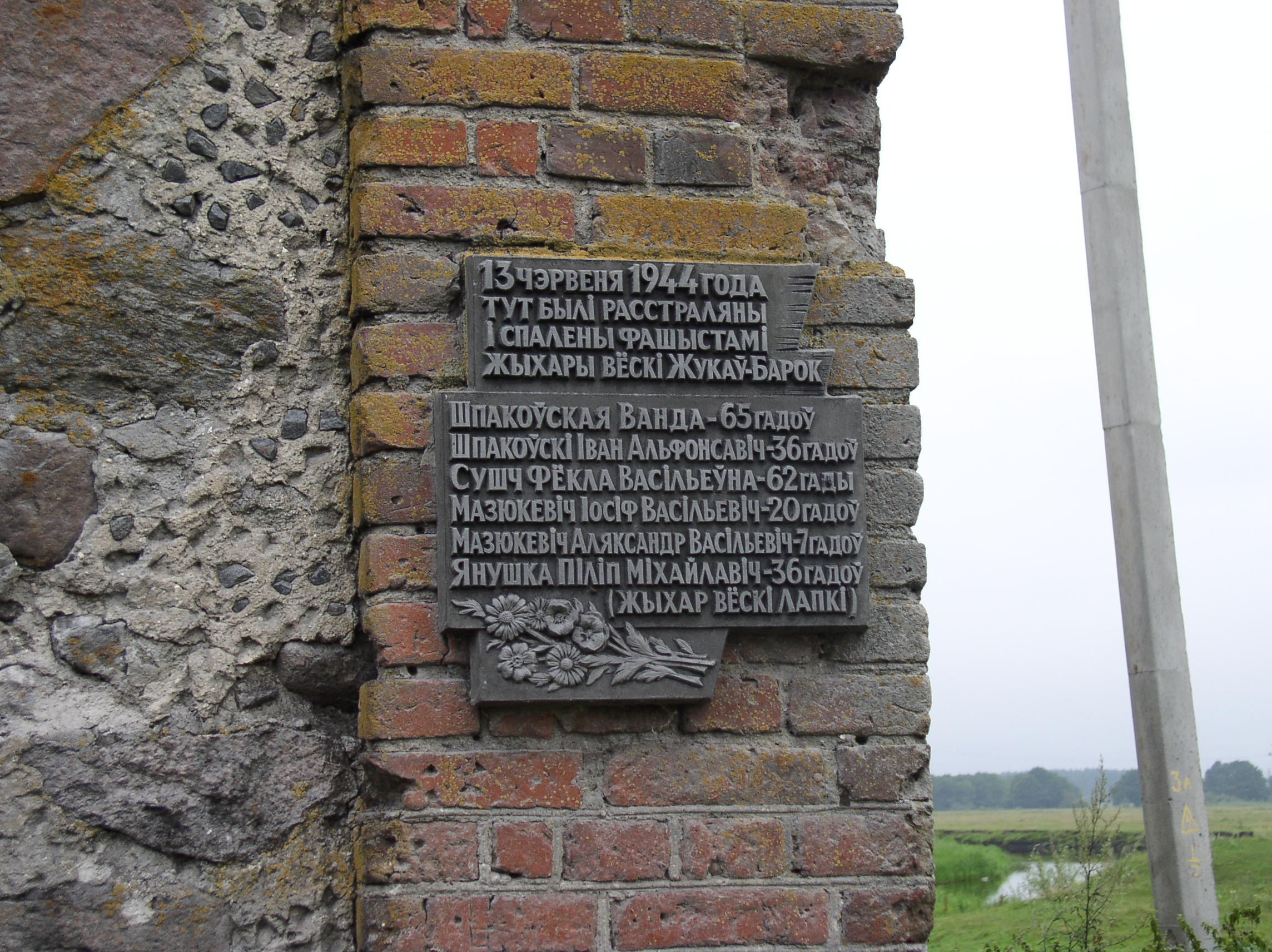 Watermill, Zhukaw Barok, Belarus.